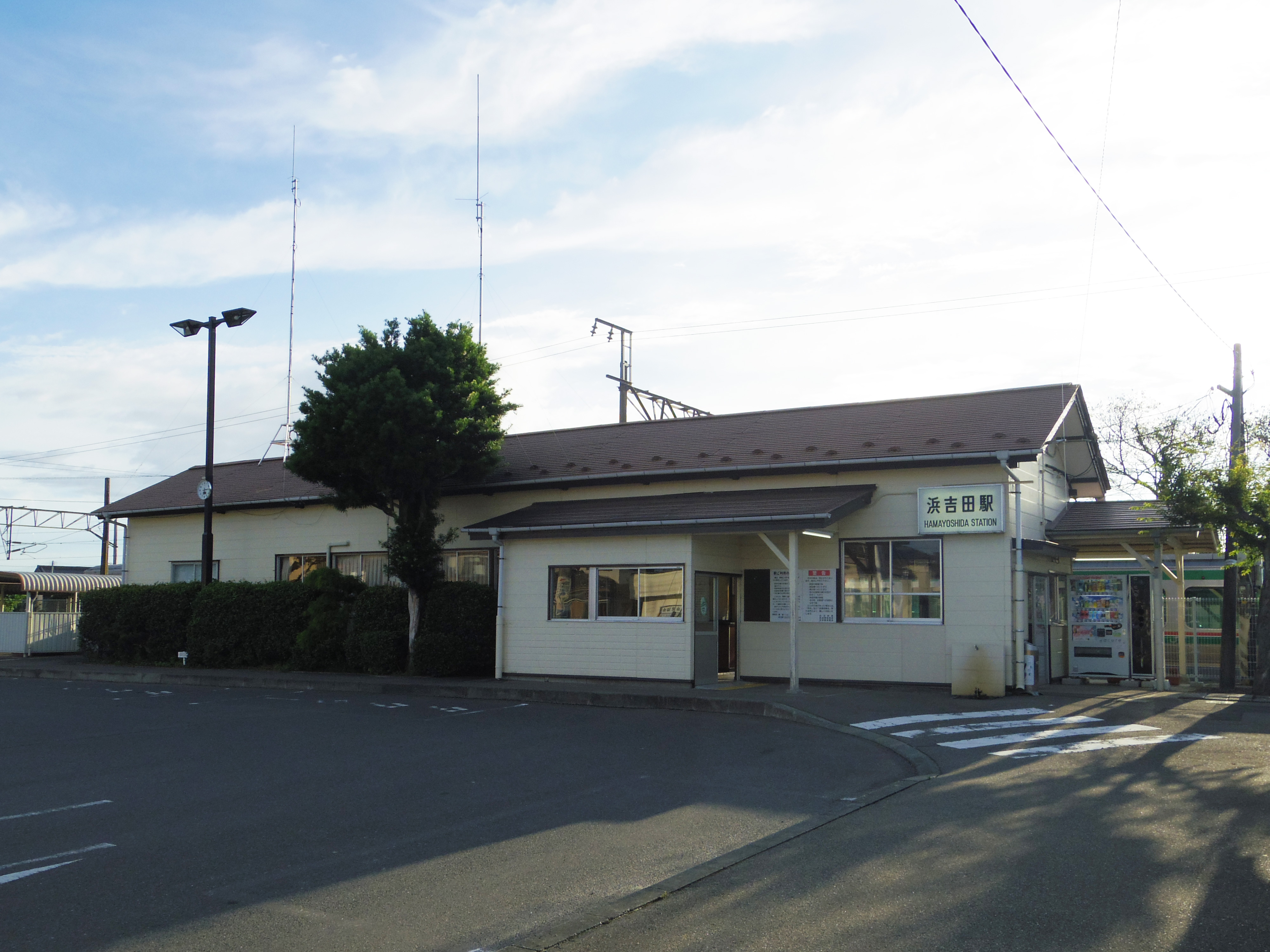 Hamayoshida Station on the Joban Line in Miyagi Prefecture, Japan